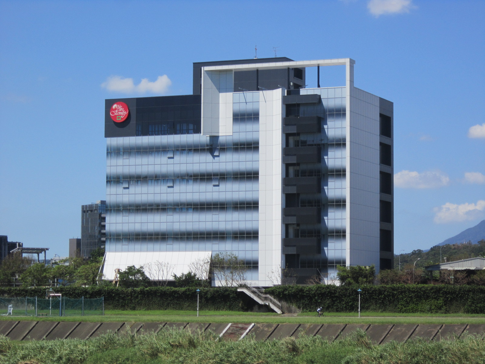 CTBC_Neihu_generator_room